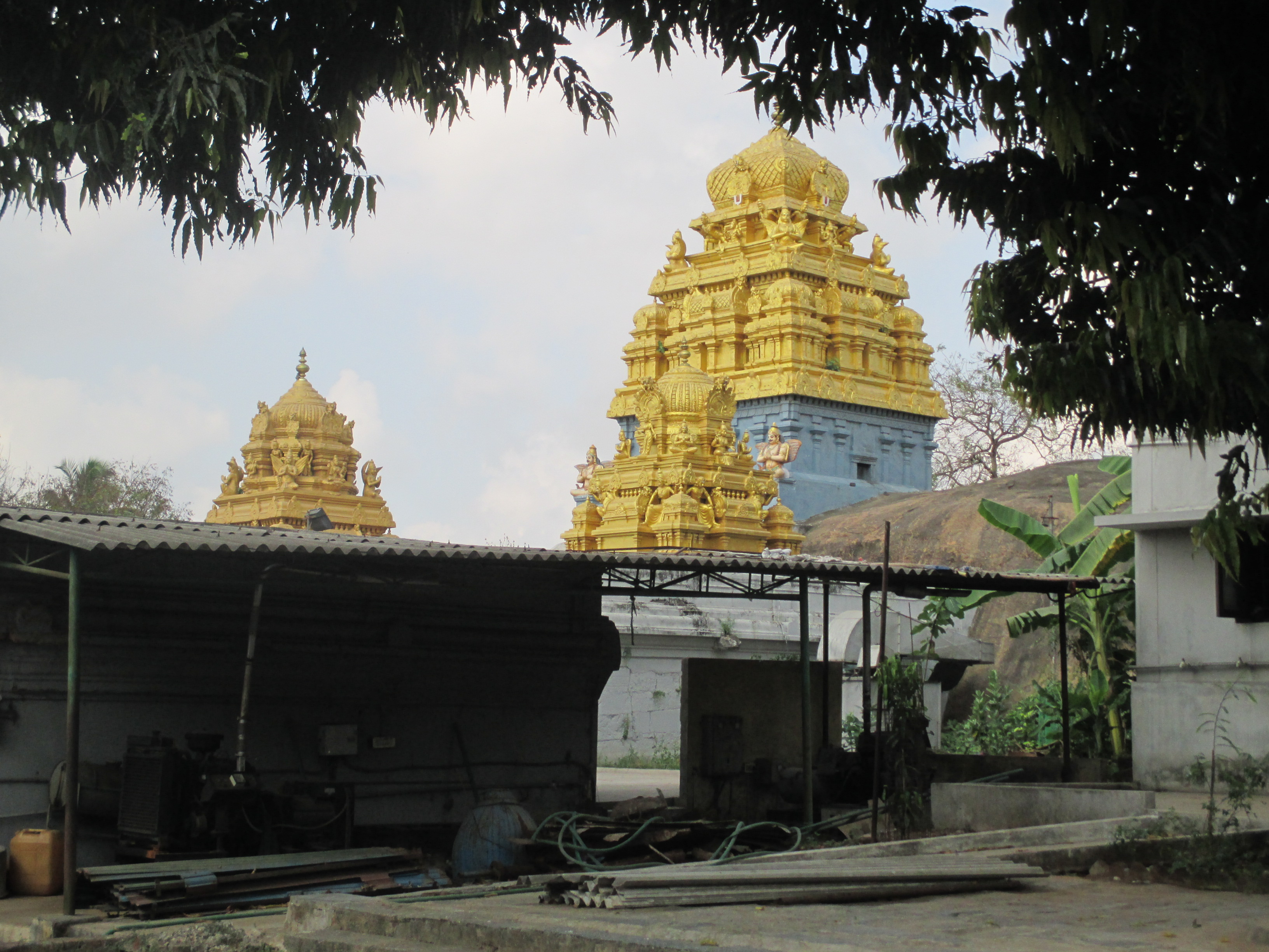 Singaperumalkovil